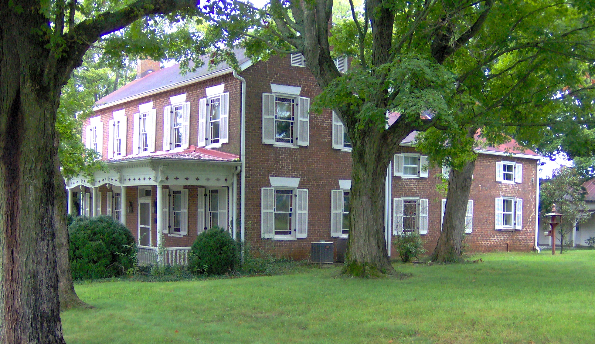 Wheatlands, a historic plantation house and outbuildings built in 1825 in the Boyds Creek community near Sevierville, Tennessee, USA. This view is from the west end, showing the rear kitchen wing.